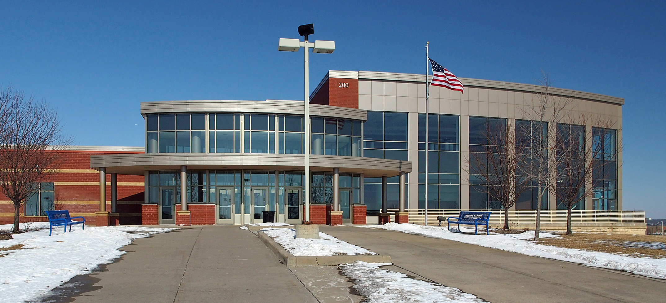 Hastings High School, 200 General Sieben Dr, Hastings, Minnesota, USA. Viewed from the south.